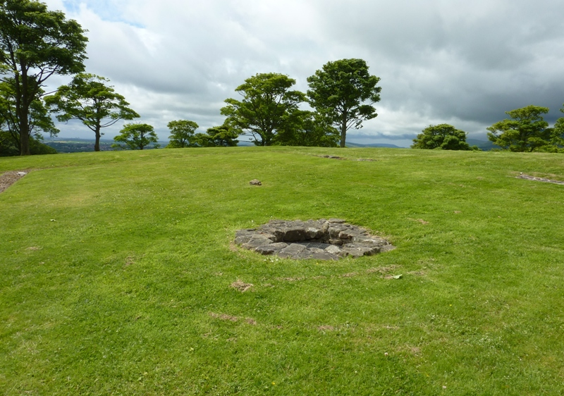 Bar Hill Fort, Twechar, East Dunbartonshire, Scotland - well in courtyard of headquarters